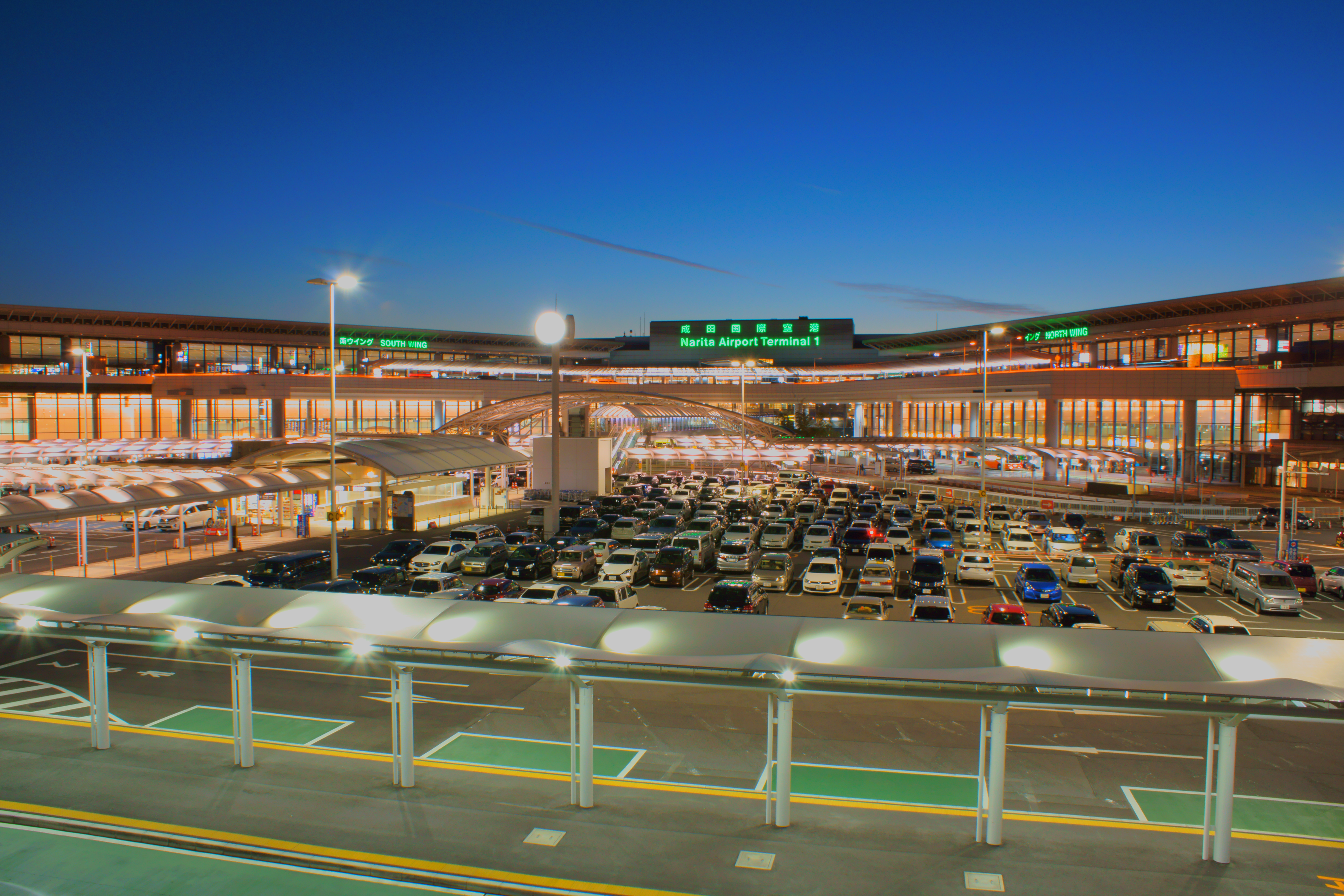 Narita Airport, Tokyo.